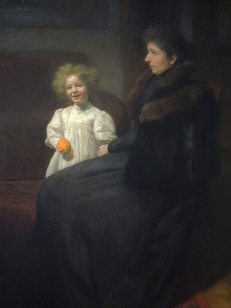 Józef Pankiewicz - Portrait of Mrs. Oderfeld with her Daughter (1899)